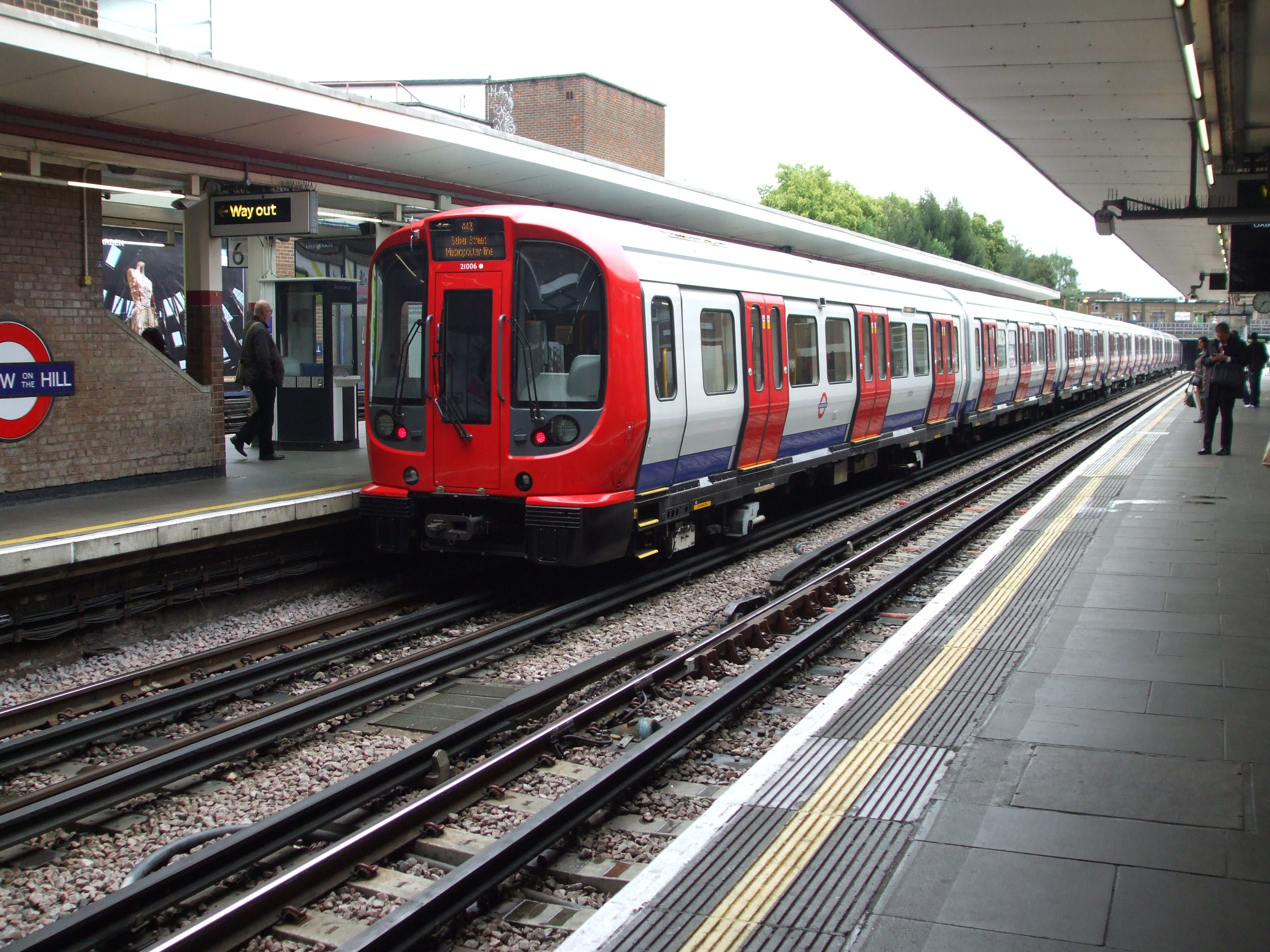 S stock train departs Harrow-on-the-Hill with a service to Baker Street.